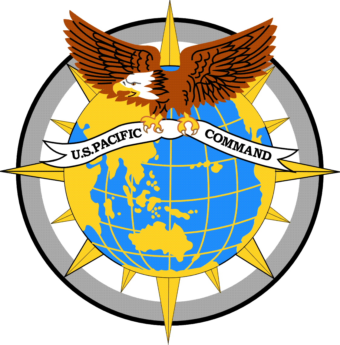 United States Pacific Command